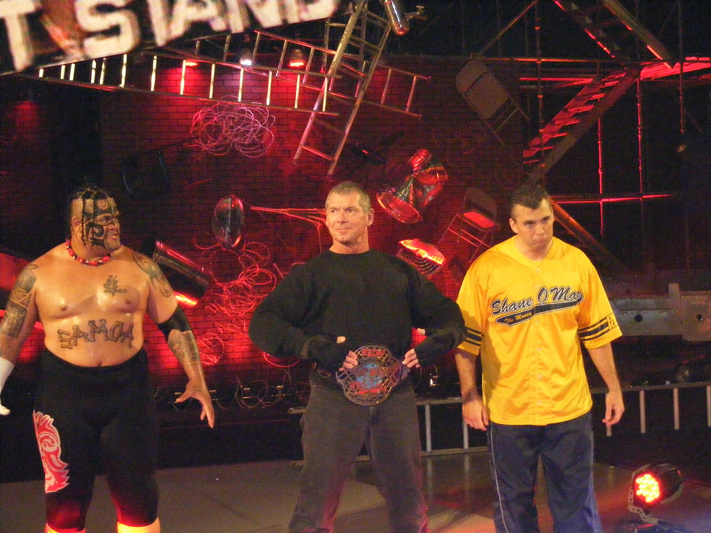 Umaga (Eddie Fatu), Vince McMahon & Shane McMahon